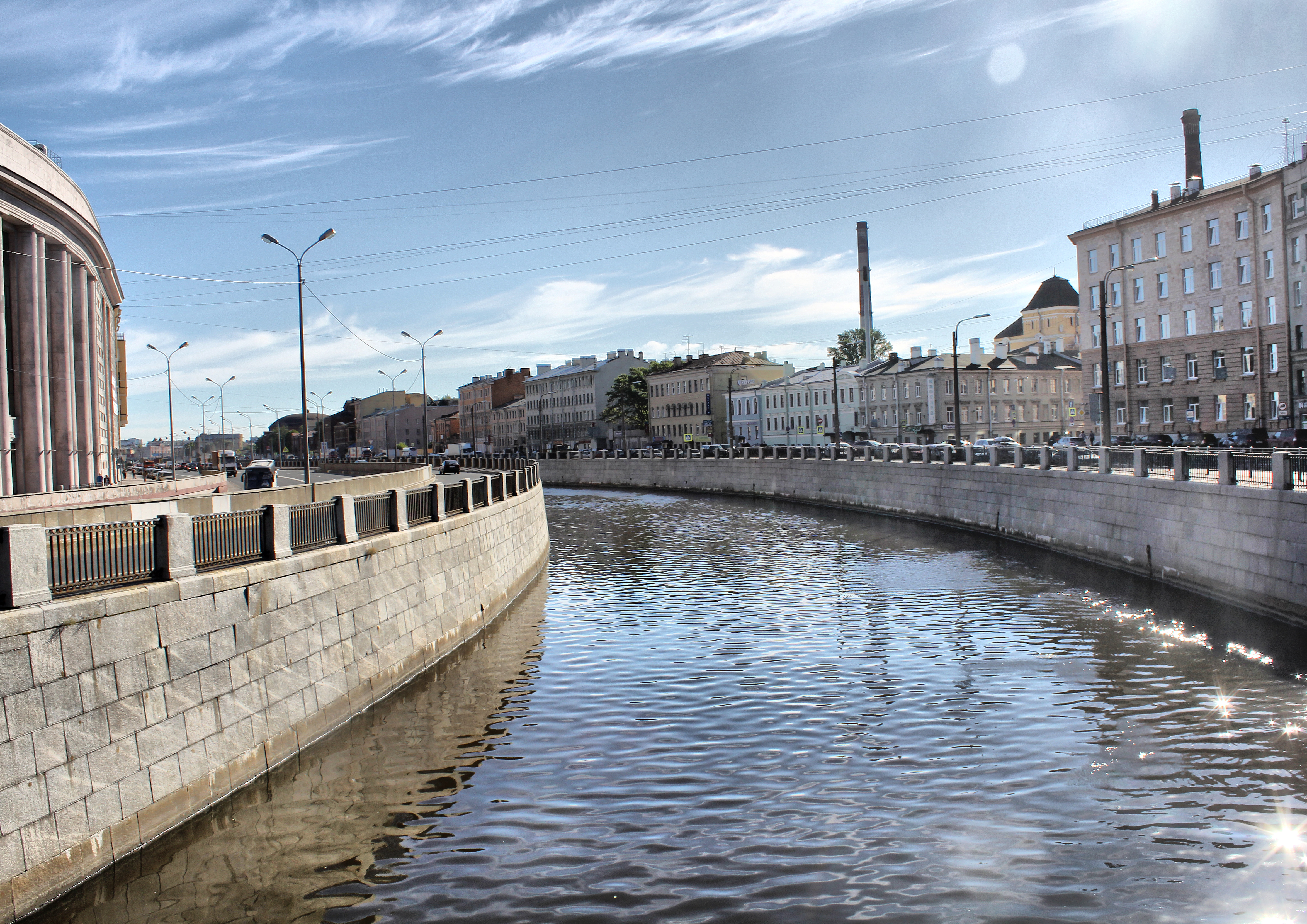 Admiralteysky District, St Petersburg, Russia